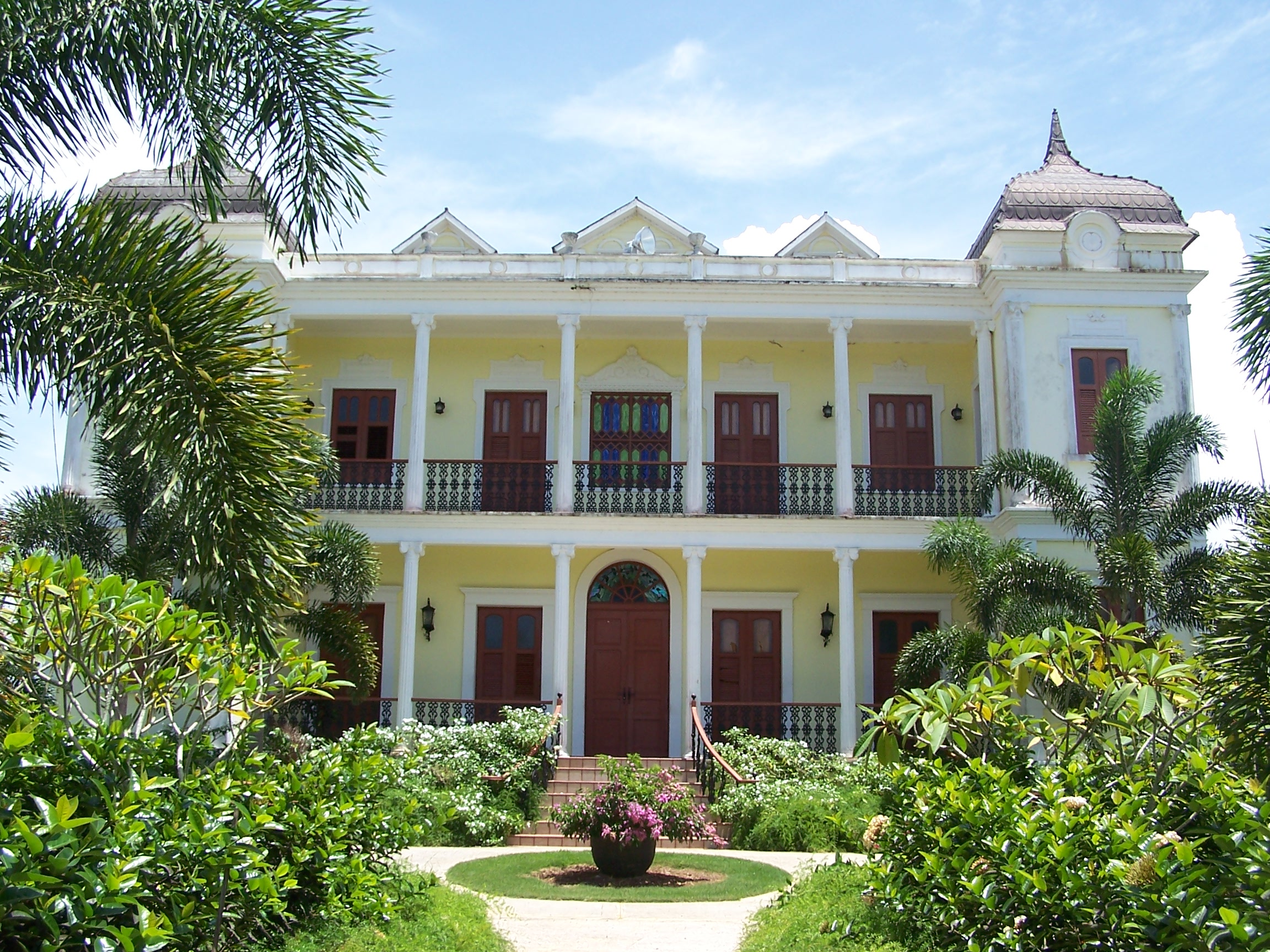 Beautiful old century palace in the city of Moca. This is the palace that inspire the famous Puertorican writer Enrique Laguerre to write La LLamarada.The well-maintained French provincial-style mansion stands on 110 acres and is on the National Historic Register.